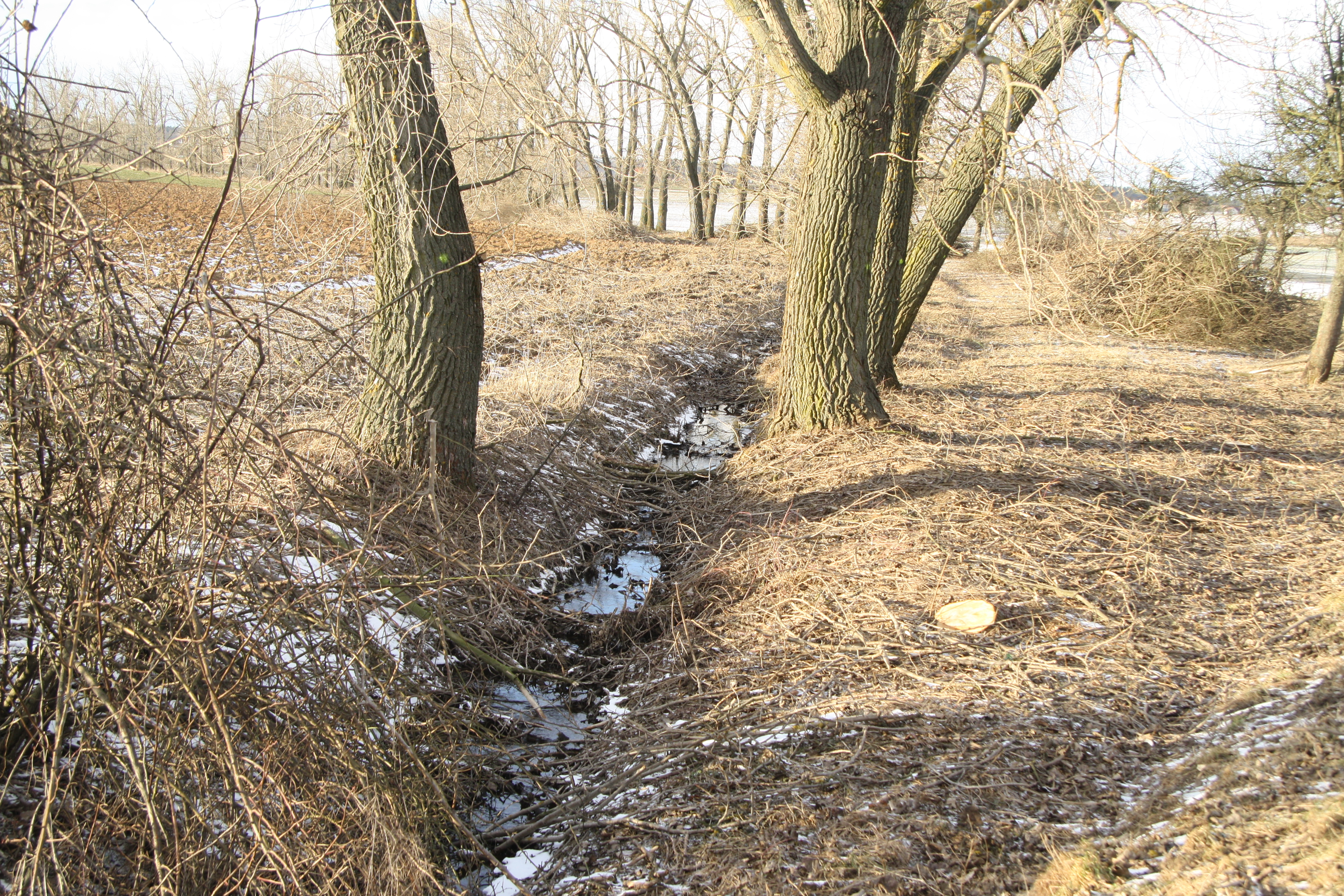 Račí stream near III 15234 road at Biskupice and Radkovice border, Třebíč district.